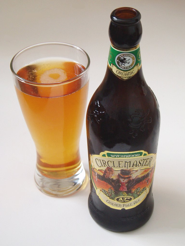 Circle Master, from Wychwood Brewery